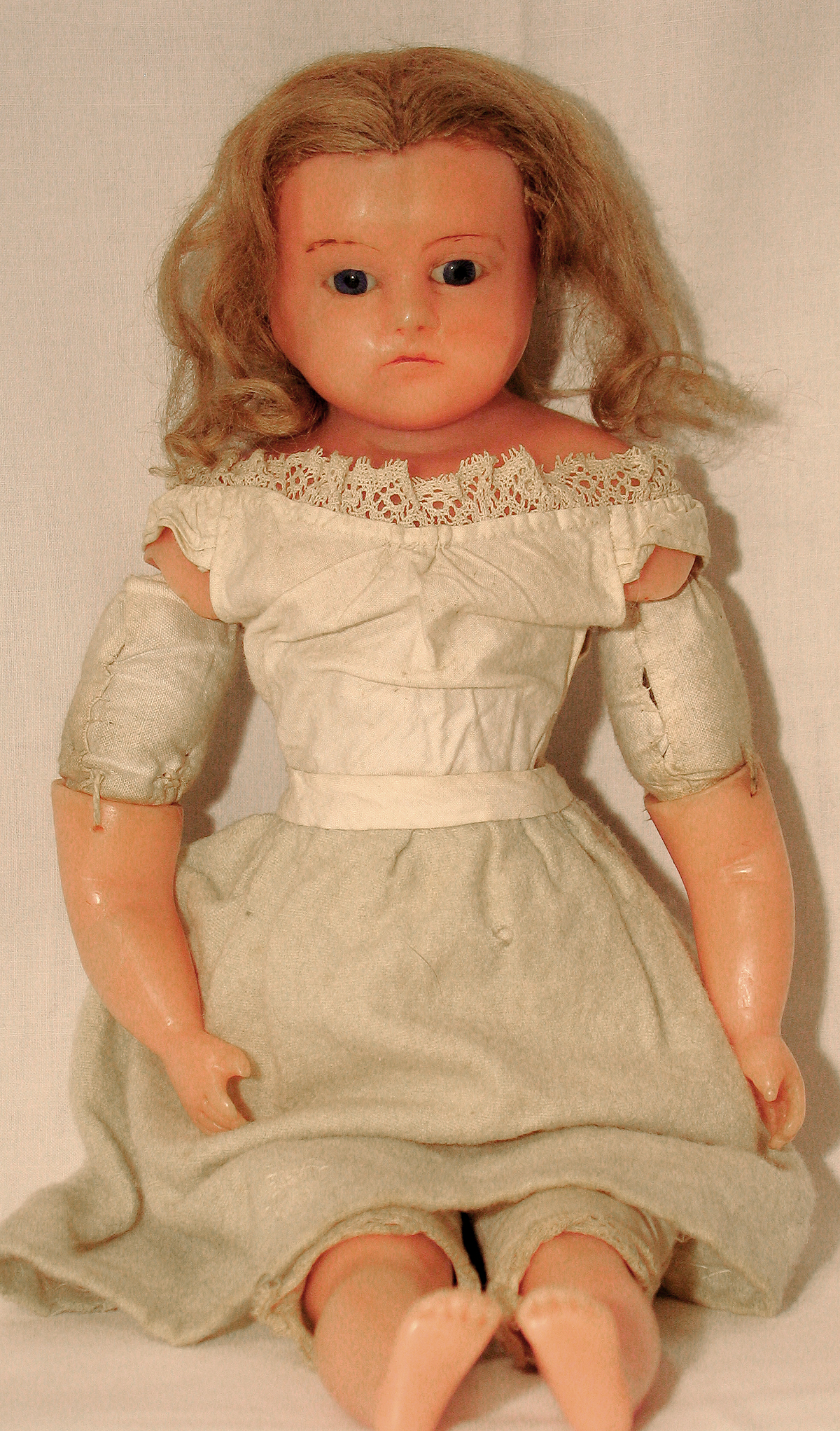 Wax doll from the doll manufacture Pierotti (head with shoulder, mohair hairs, arms and legs) and a stamp on womens torso F. Aldis ... Belgrave Manor", London, about 1880 ...